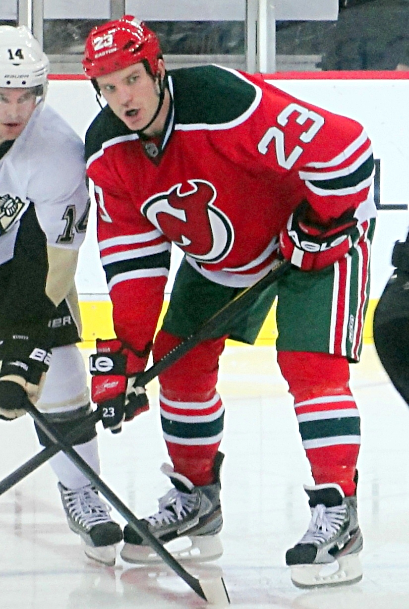 New Jersey Devils forward David Clarkson skates against the Pittsburgh Penguins, March 17, 2012 at Prudential Center in Newark, NJ.